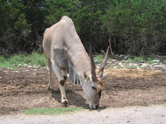 Actually, it's an Eland. Taken by me.